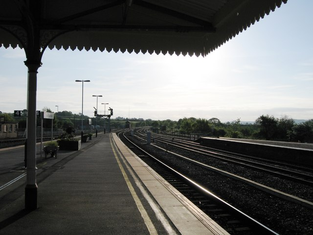 Yeovil Junction railway station Original description: Early morning, Yeovil Junction Taken at 06.53 looking up the line towards London